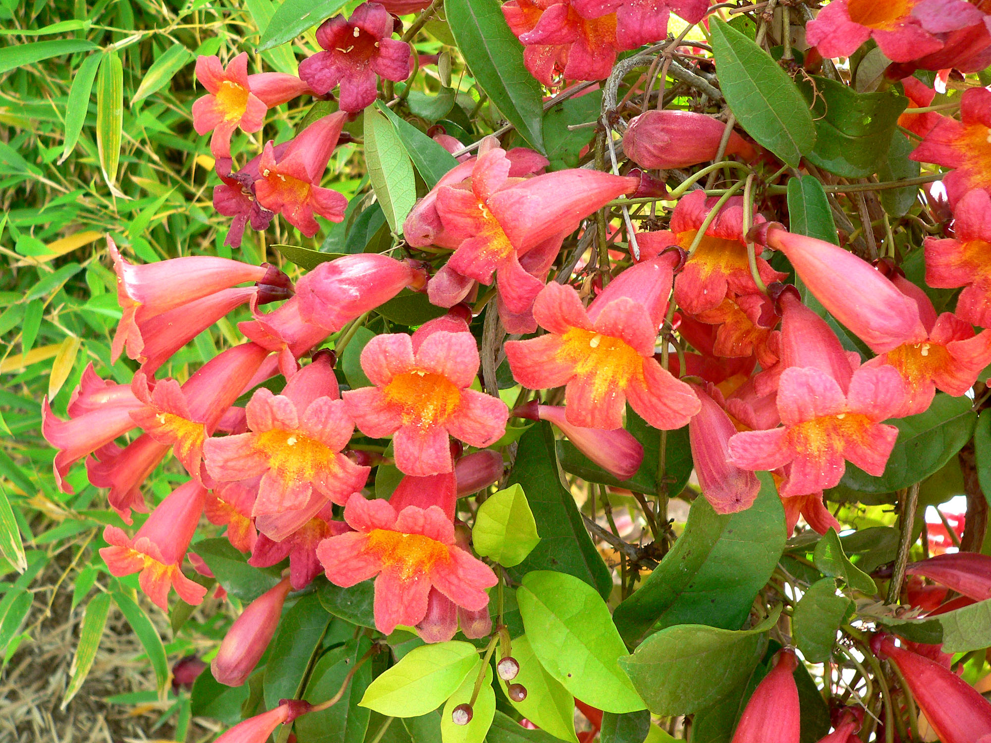 Bignonia capreolata at the Springs Preserve garden, Las Vegas, Nevada